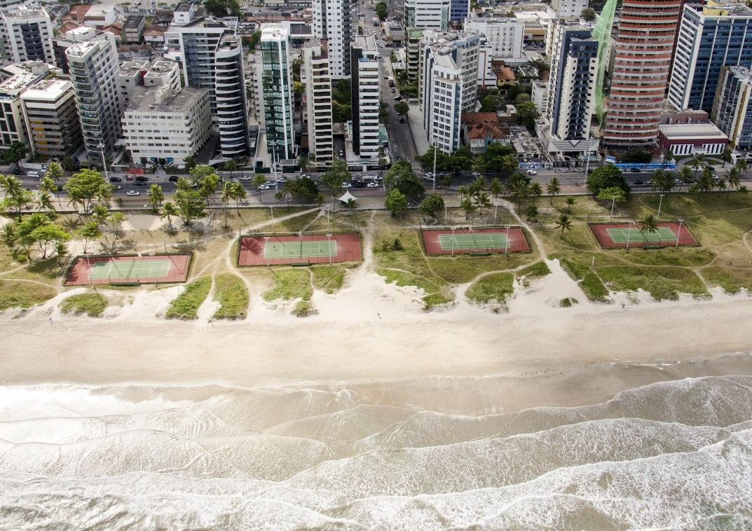 Boa Viagem Beach - Recife - Pernambuco - Brazil